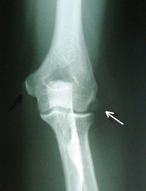 Calcific epicondylitis (simple xray)